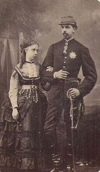 Princess Margherita of Bourbon-Parma (1847-1893) e Carlos, Duke of Madrid (1848-1909).